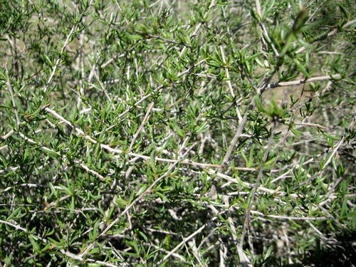 Pteropyrum Olivieri - Iran